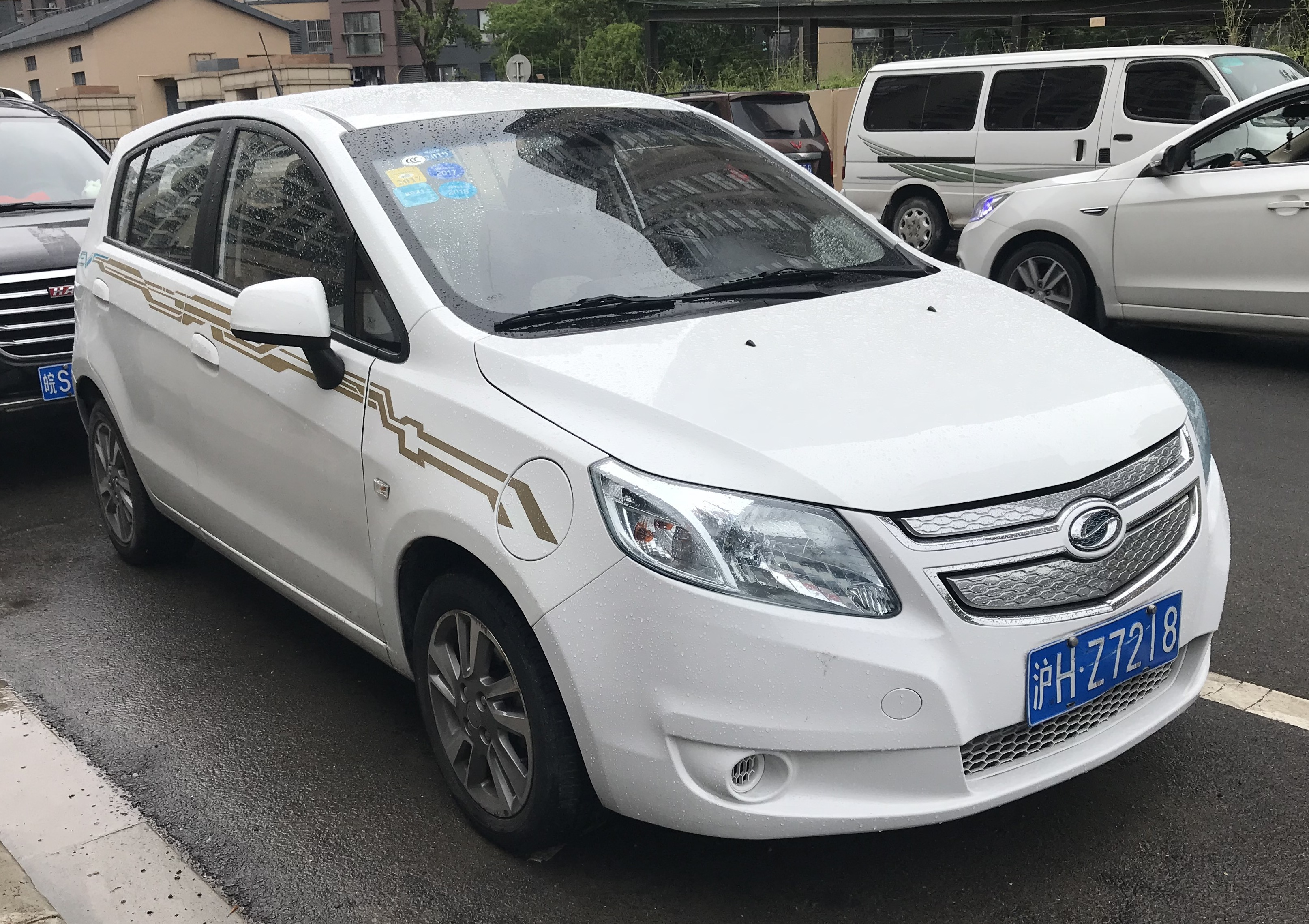 Springo EV